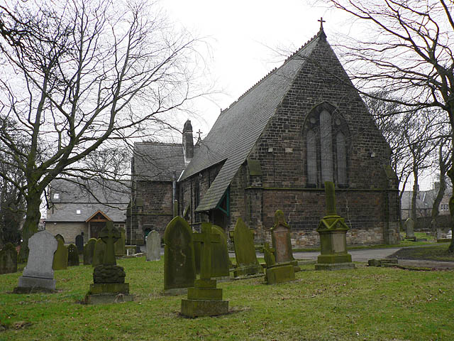 Parish church of St Mary Magdalene, Broomside Lane, Belmont, County Durham, seen from the west